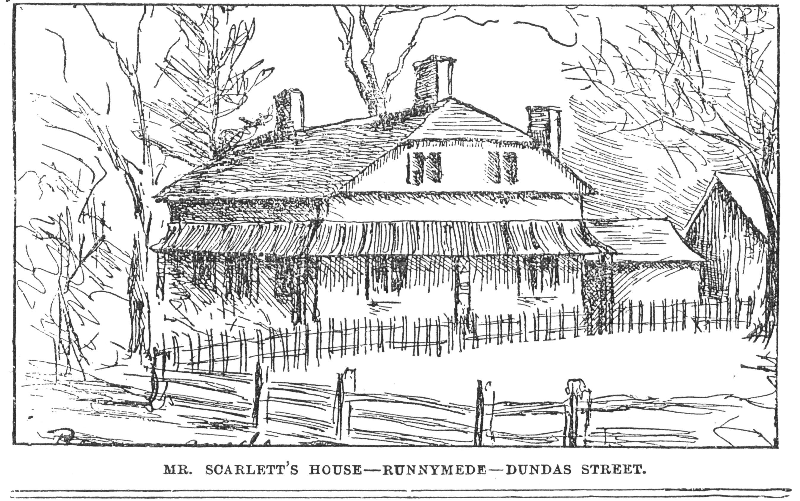 Drawing of John Scarlett's home - Runnymede built 1838 west of Toronto